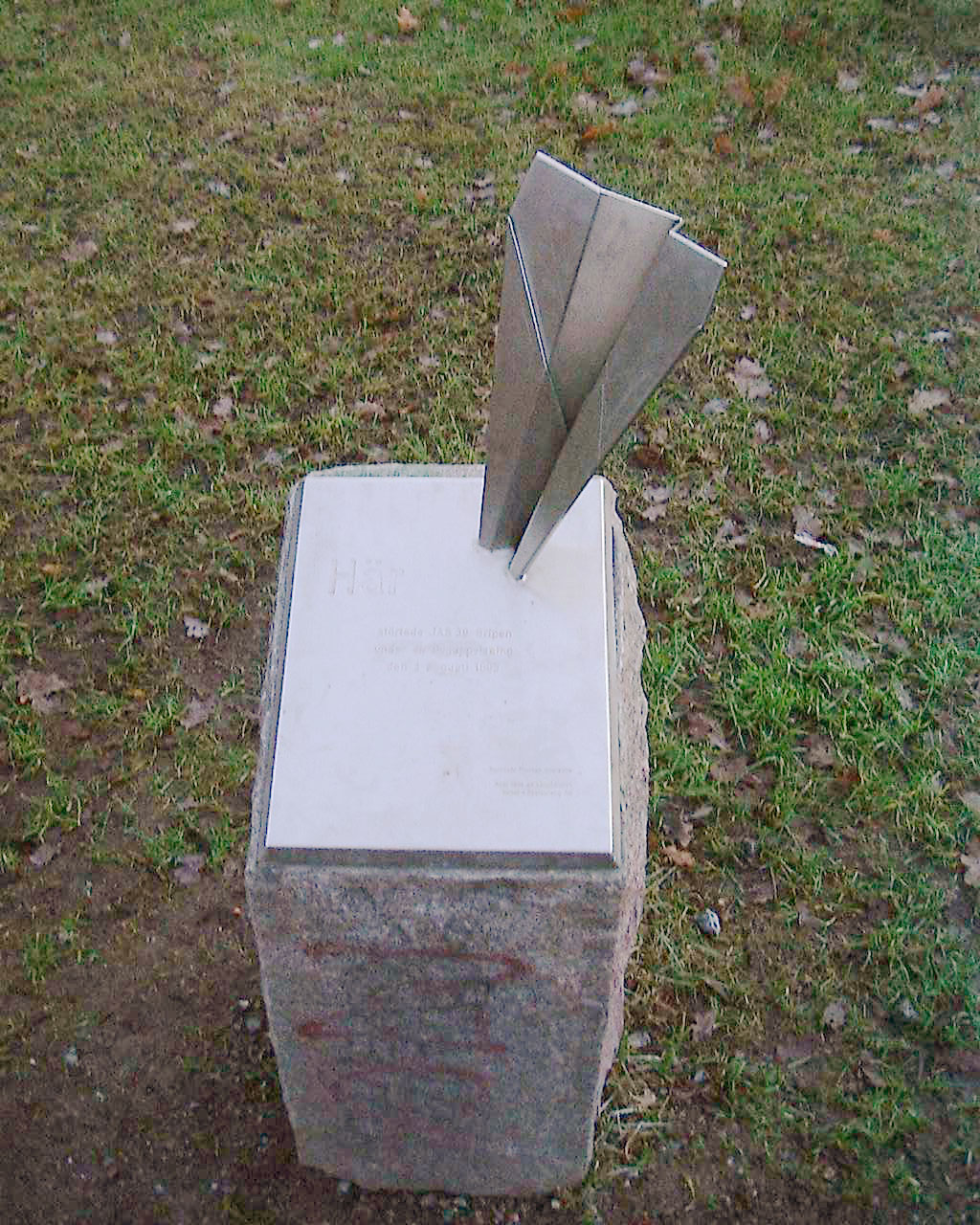 Photo of a monument on Långholmen, Stockholm, commemorating the JAS 39 Gripen crash in August 1993.